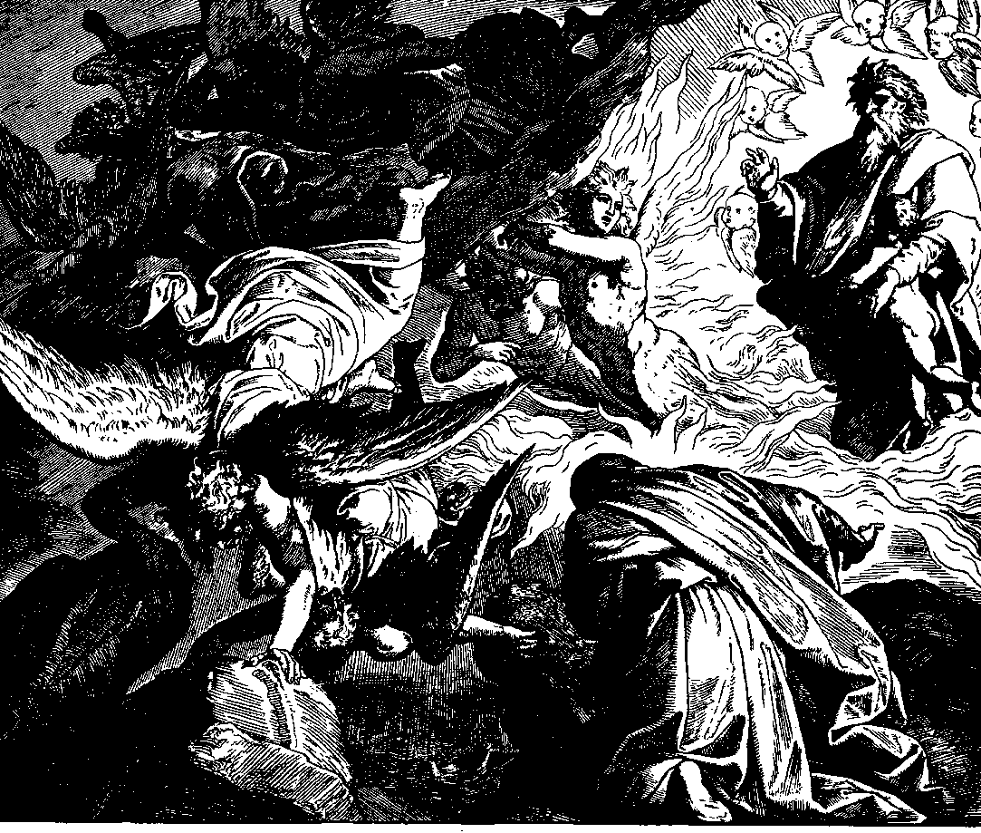 Woodcut for "Die Bibel in Bildern", 1860.